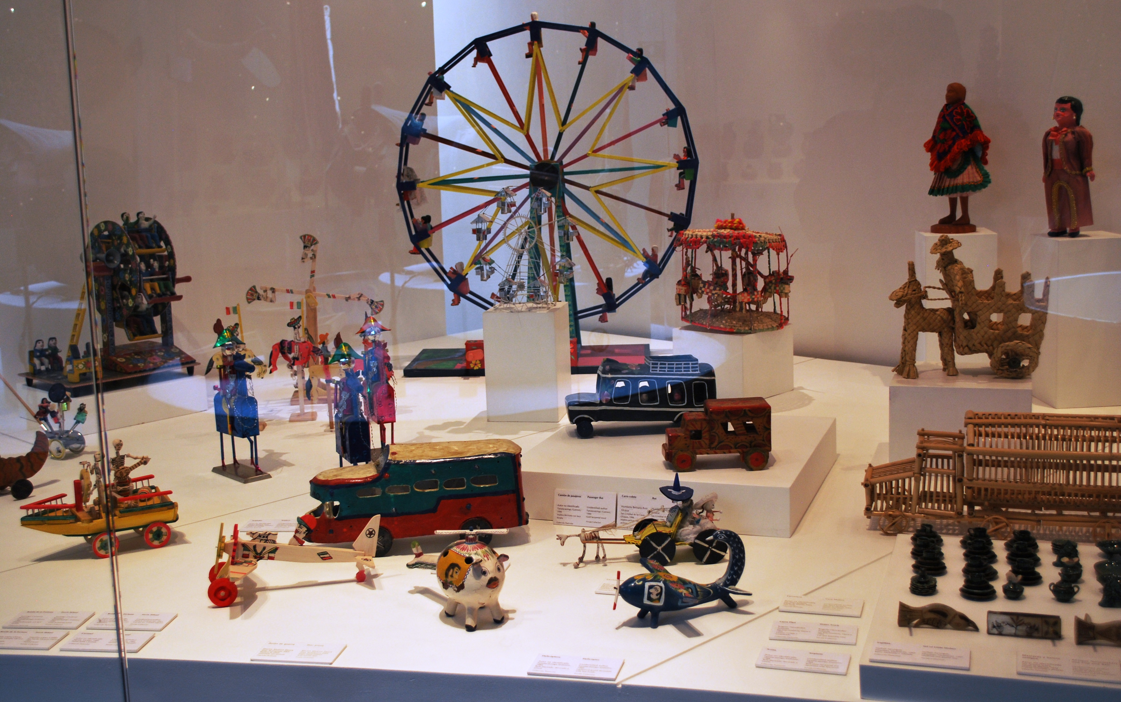 Handcrafted toys on display at the Museum of Artes Populares in Mexico City